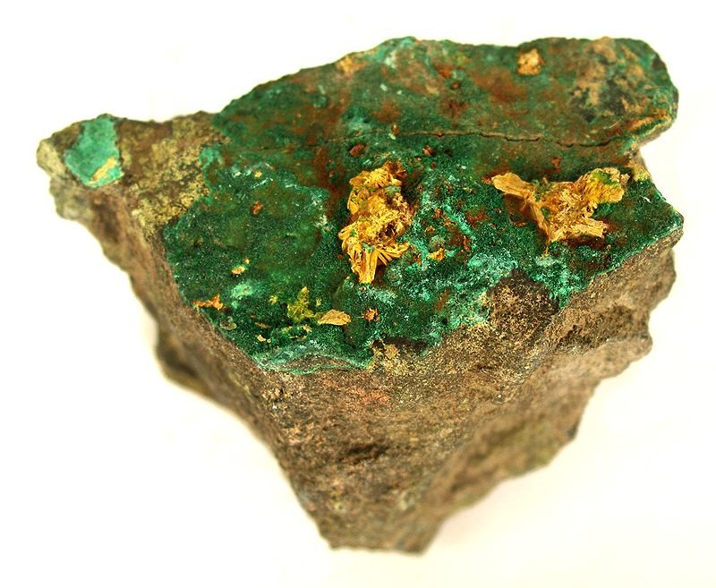 Schoepite, Cuprosklodowskite Locality: Musonoi Mine, Kolwezi, Western area, Katanga Copper Crescent, Katanga (Shaba), Democratic Republic of Congo (Zaïre) (Locality at ) Size: 4.9 x 4.7 x 3.1 cm. Sharp, flattened crystals of schoepite to 3 or 4mm, perched on contrasting matrix.